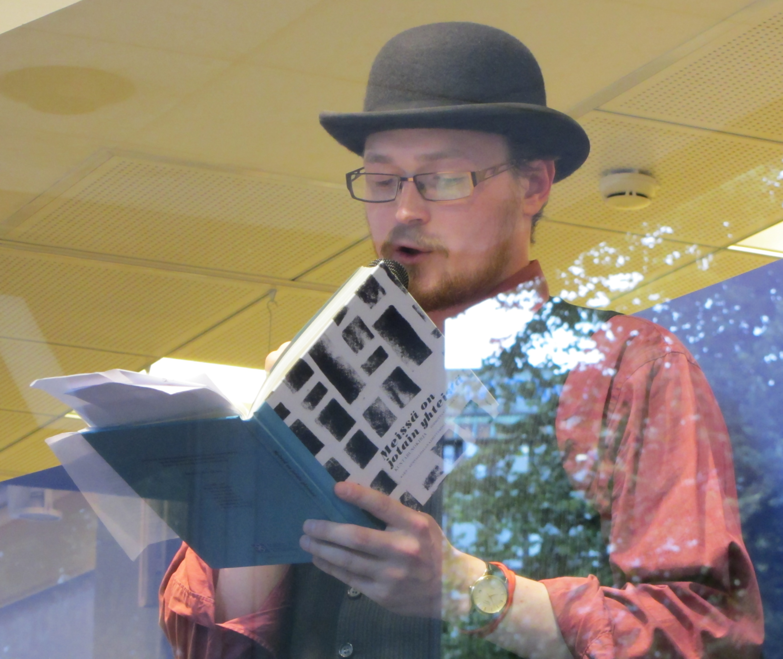 Finnish poet Juho Nieminen reading poems in the show window of the book store Akateeminen kirjakauppa on the Night of The Arts in Helsinki 2012